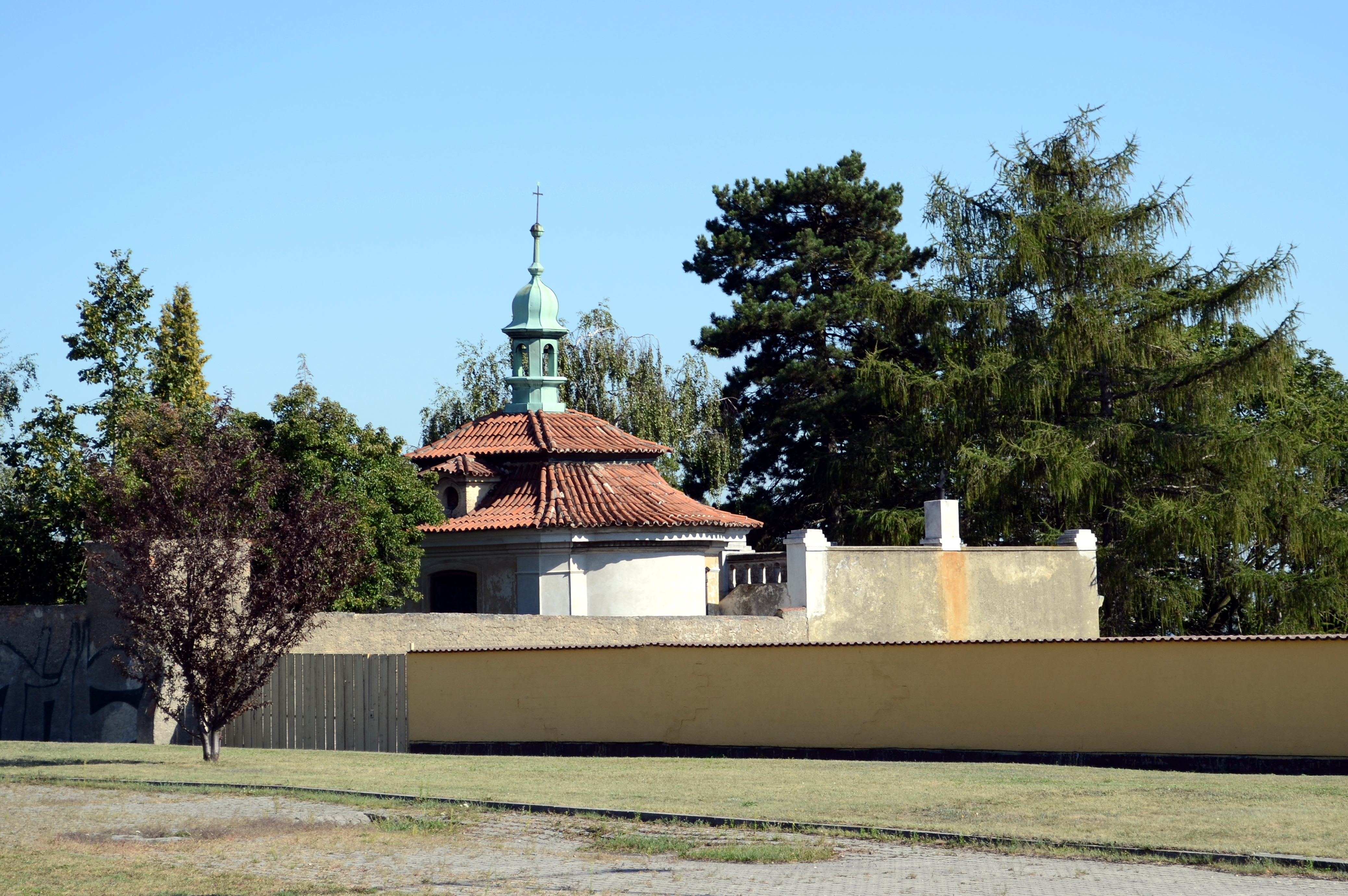 St. John of Nepomuk chapel near house Kneislovka, Spiritka street, Prague-Břevnov, Czech Republic.